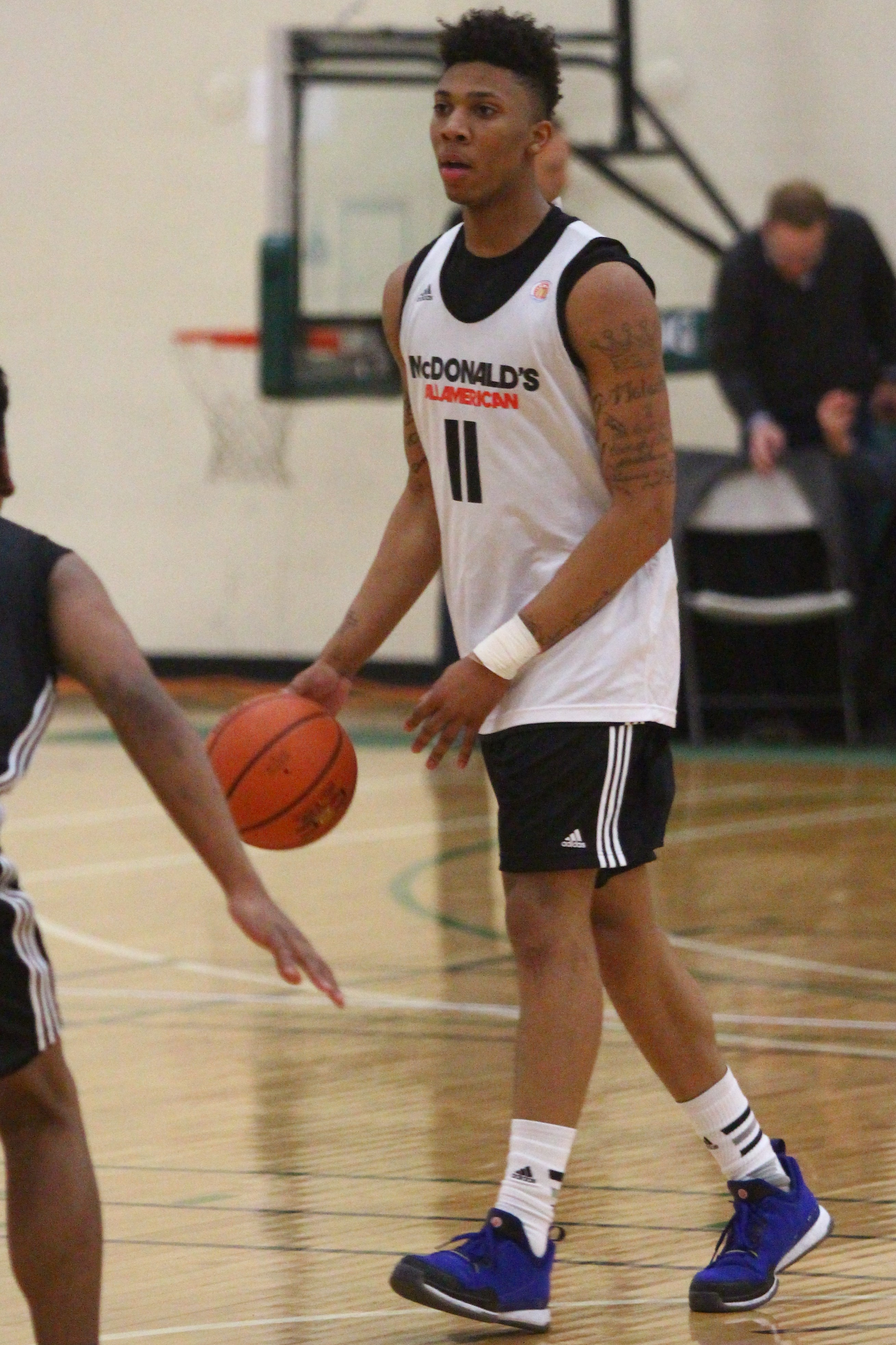 Malachi Richardson in the w:2015 McDonald's All-American Boys Game closed practice